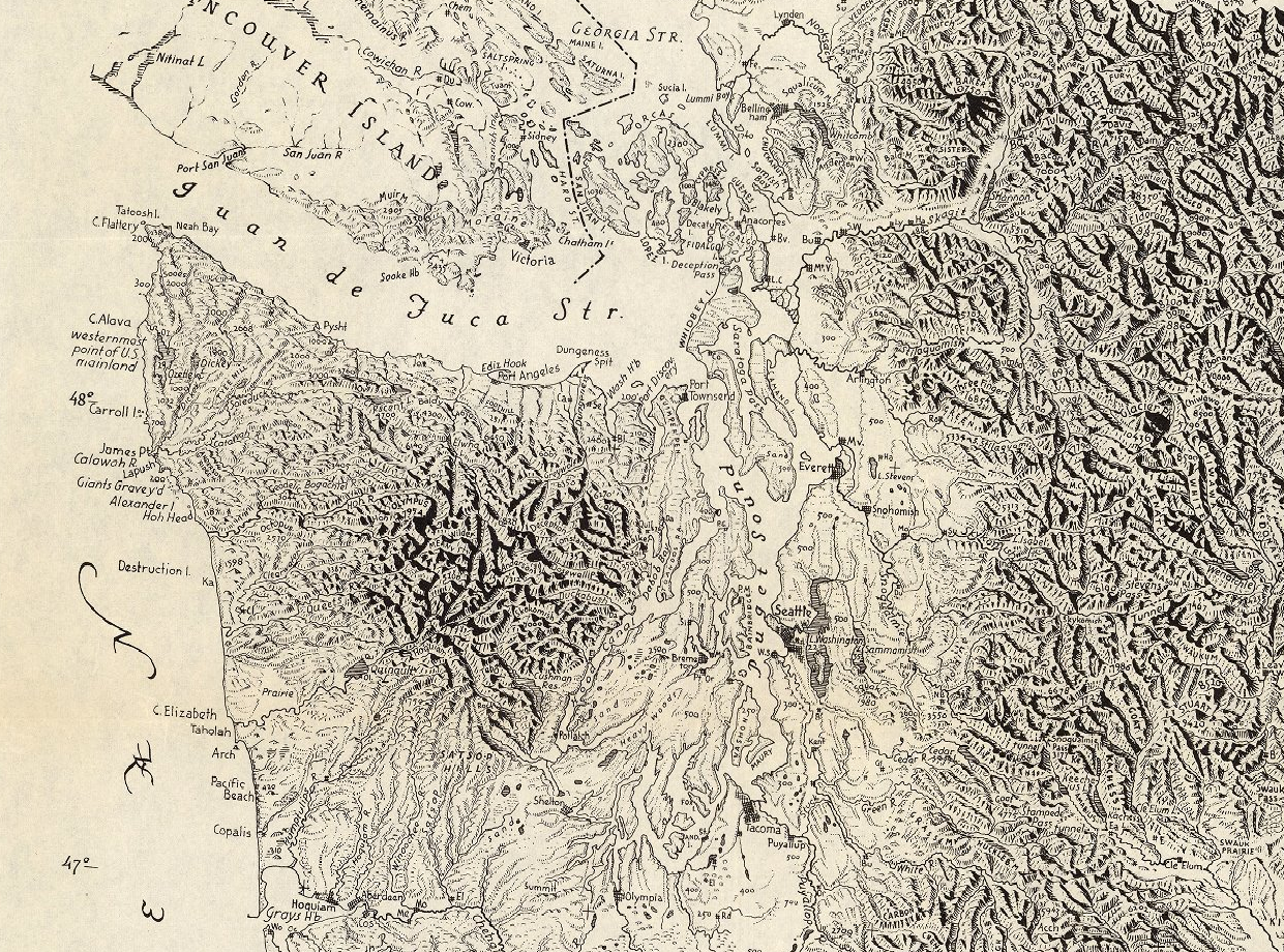 Portion of Erwin Raisz's 1941 "Landforms of the Northwestern States" showing the Olympic Peninsula, Puget Sound, and part of southern Vancouver Island. Hand drawn black-and-white map highlighting landform relief such as hills, mountains, and valleys.